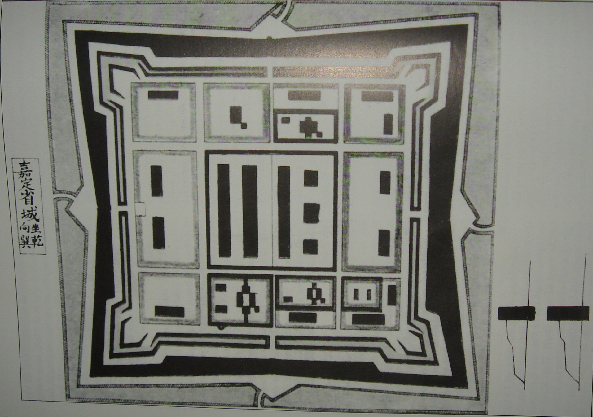 Layout of the reconstructed citadel of Sai Gon after the first demolition by Emperor Minh Mang in Dai Nam Nhat Thong Chi (Dai Nam administrative repertory), a 19th century repertory of Nguyen Dynasty of Vietnam.